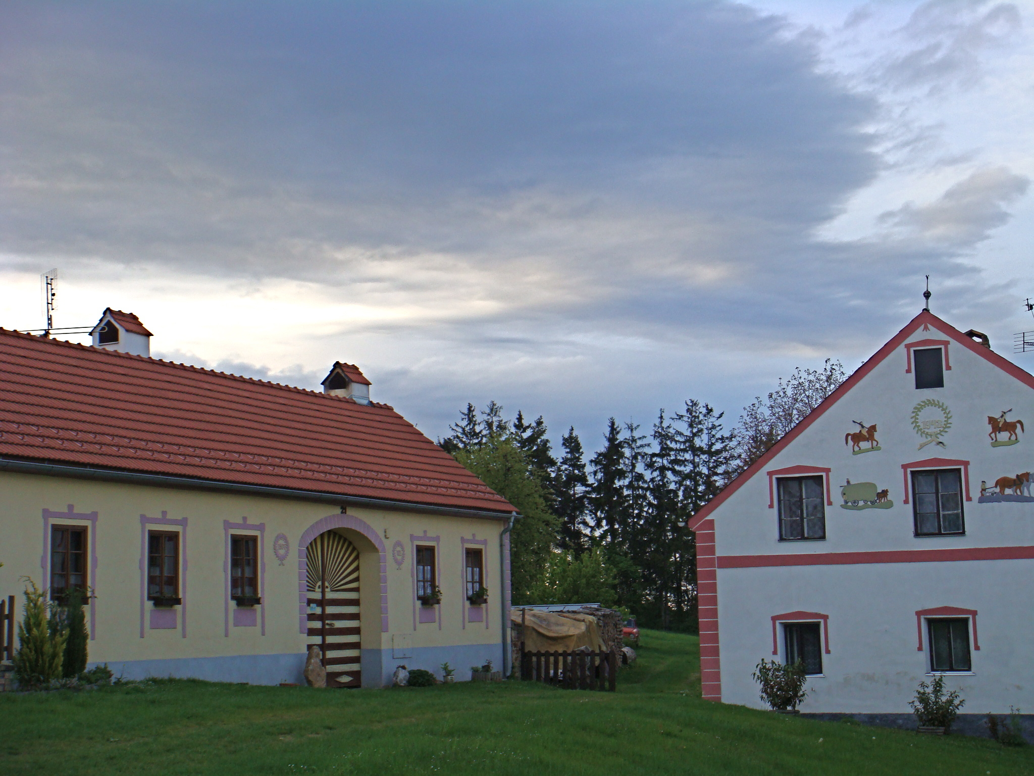 Holašovice Historic Village (Czech Republic)